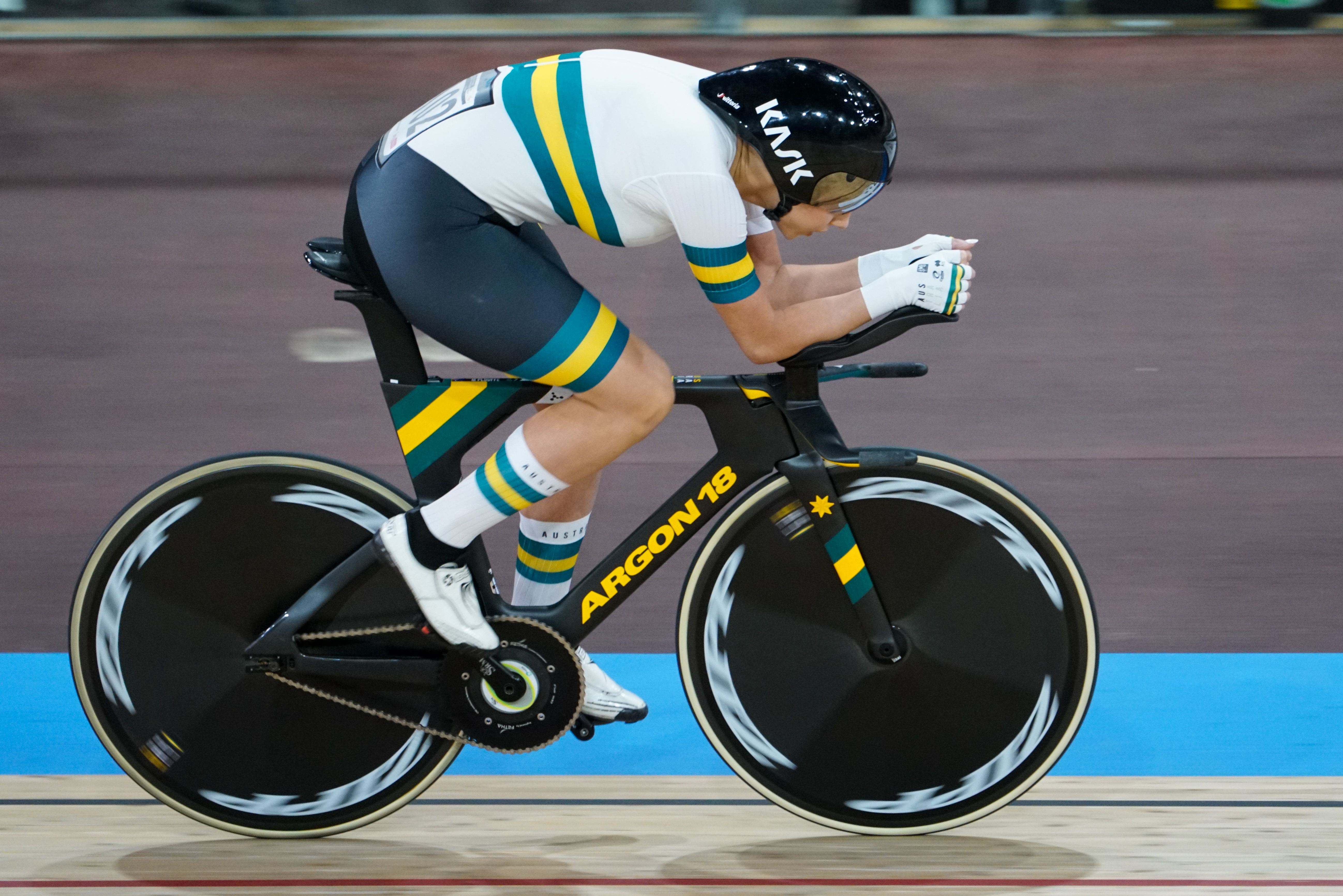 2020 UCI Track Cycling World Championships – Women's Individual Pursuit – Qualifying